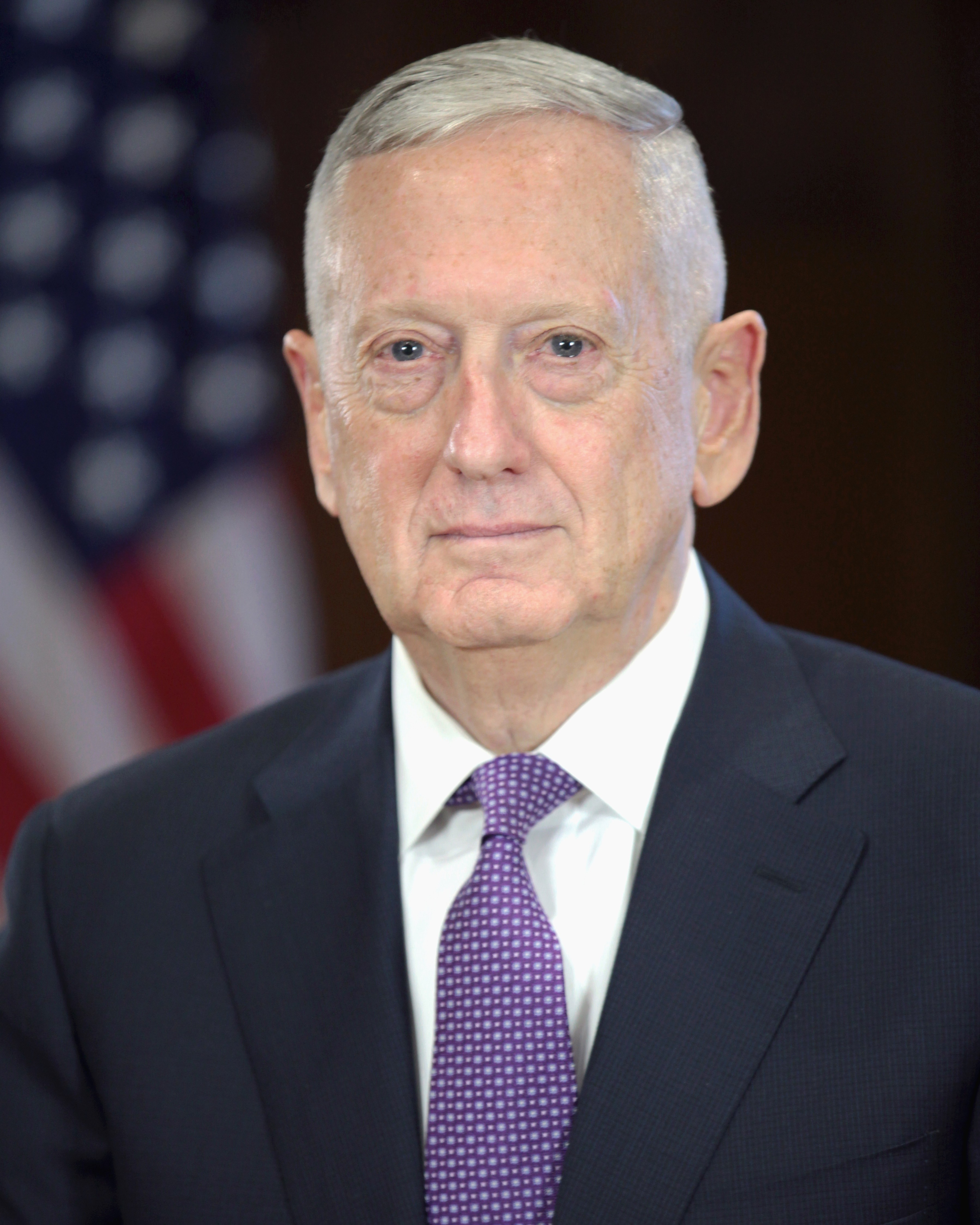 Portrait of James Mattis, President-elect Donald Trump's choice for Secretary of Defense